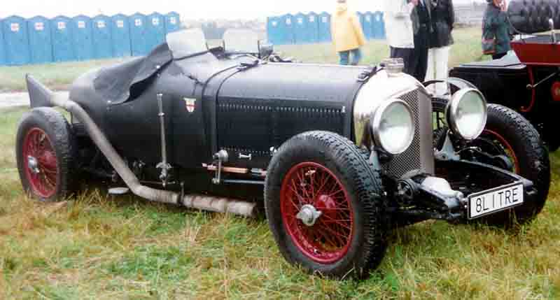 Bentley 4/8-Litre 2-Seater Sports 1932